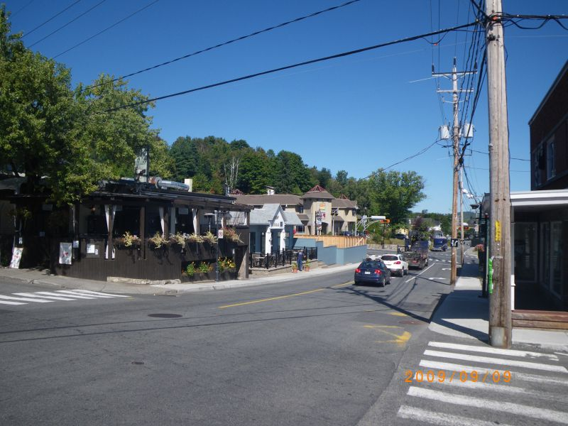 Downtown Sainte-Adèle, Laurentides, Québec, Canada